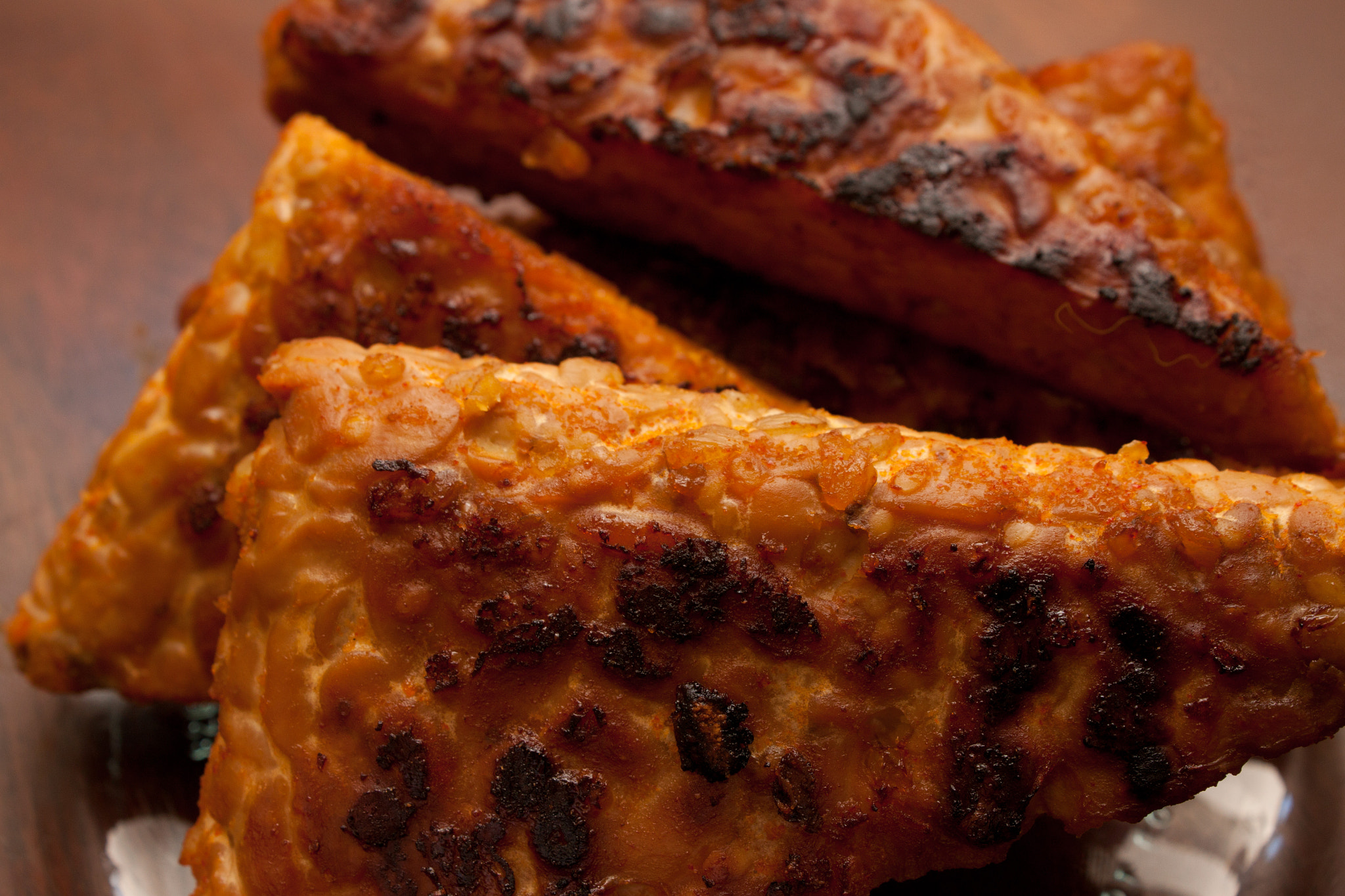 500px provided description: Smoky Grilled Tempeh [#Food ,#veganomnom]